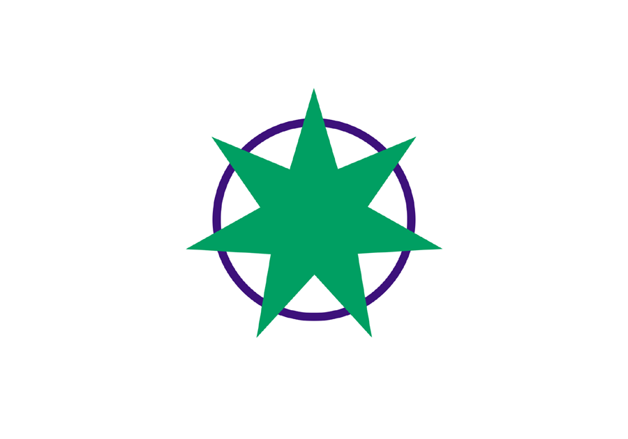 Flag of Aomori, Aomori